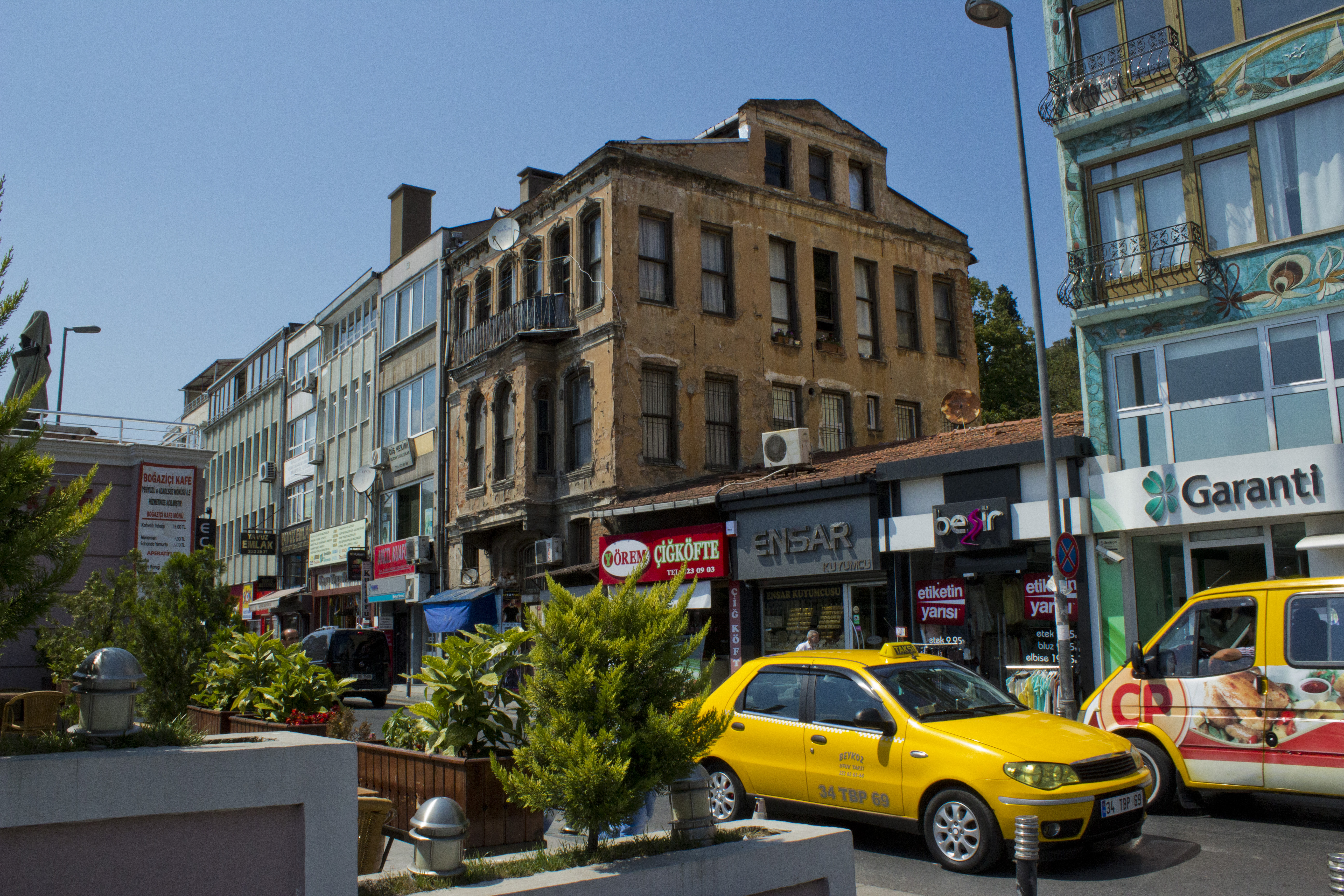 Another old house in Gümüşsuyu, Asian Istanbul, Turkey.